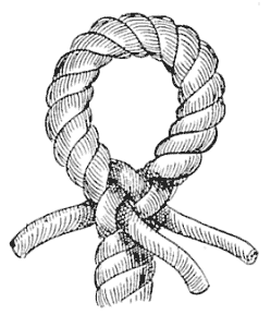 An "Eye Splice" is made in the same manner as the short splice, but instead of splicing the two ends together, the end of the rope is unlaid and then bent around and spliced into its own strands of the standing part.